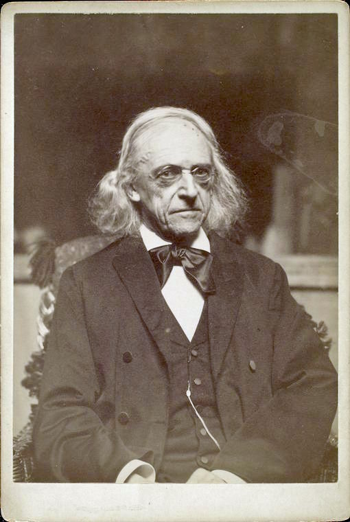 Theodor Mommsen, German historian, politician and writer